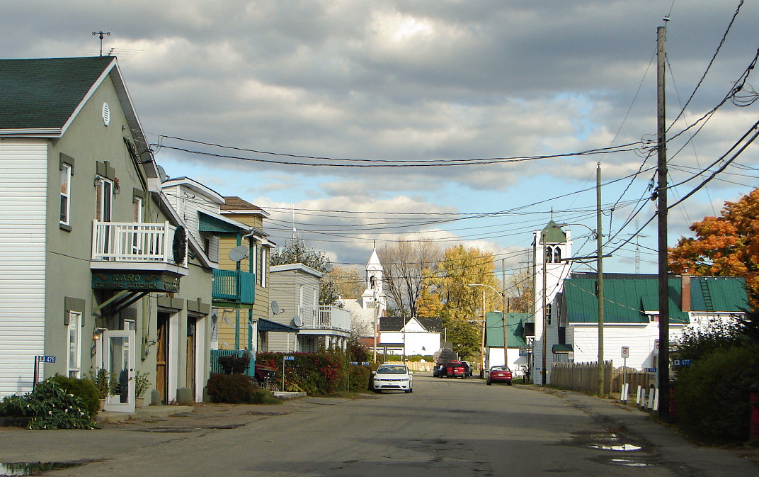 Calumet (municipality Grenville-sur-la-Rouge), Quebec, Canada